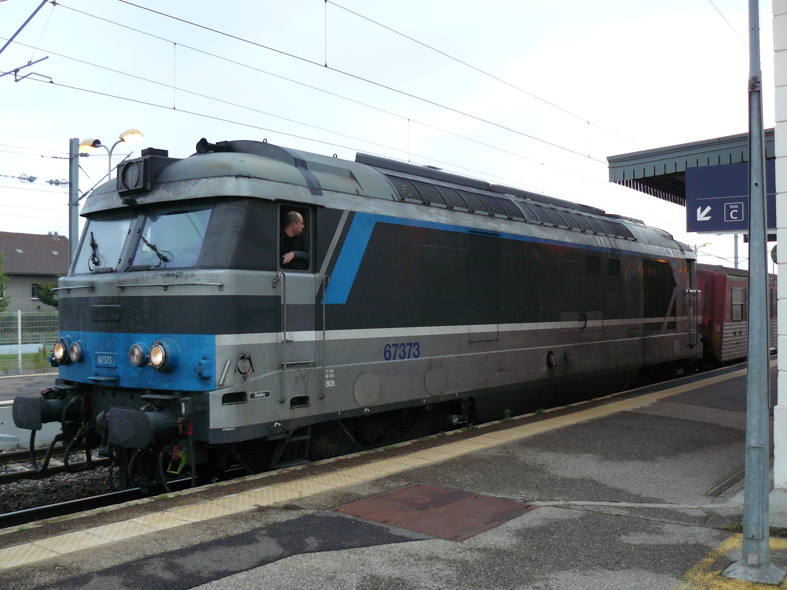 French locomotive BB 67373 in Corail + Isabelle livrery. Picture taken in Grenoble Universités Gières in France (Rhône Alpes)